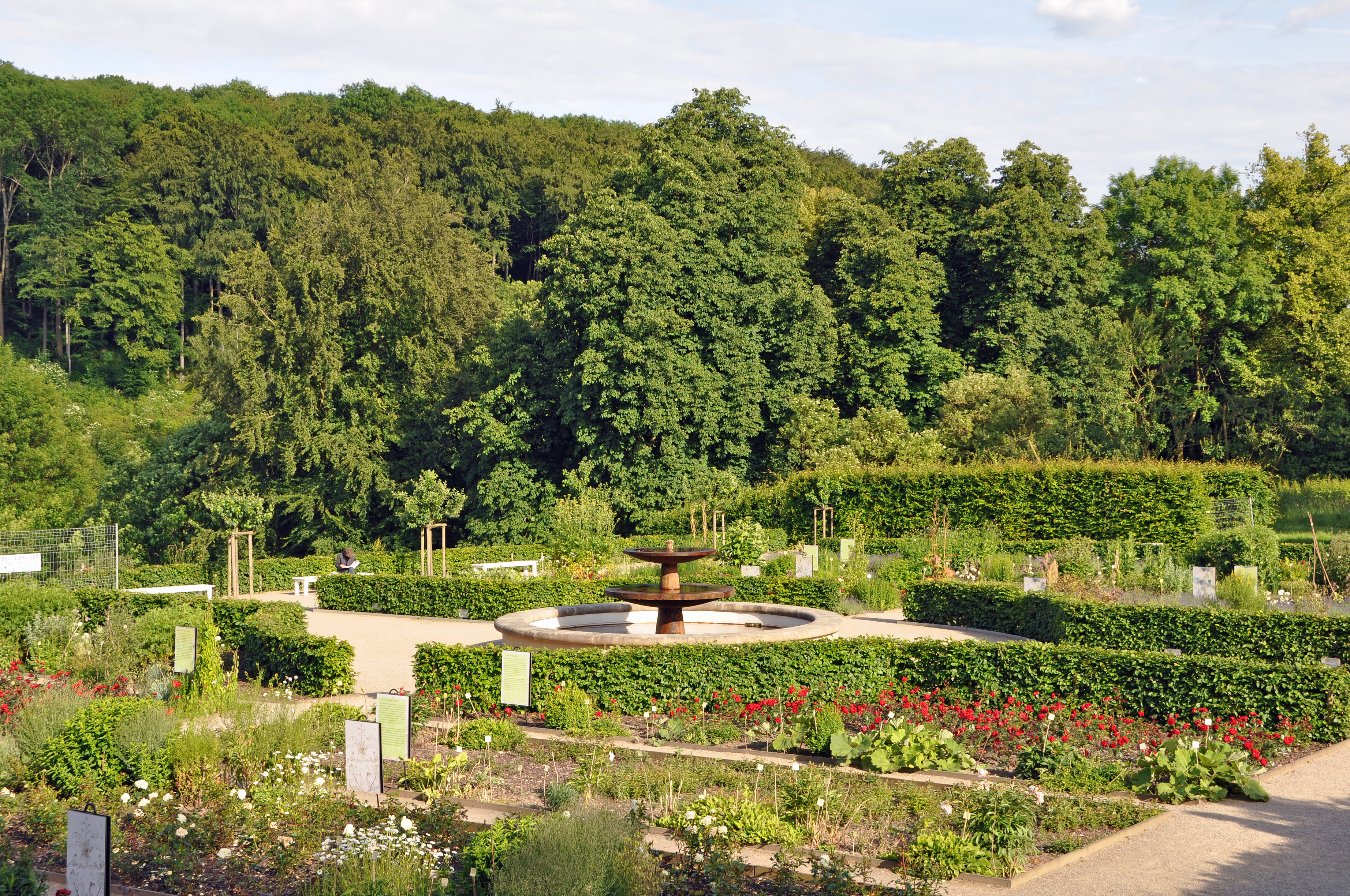 Lichtenau (Westphalia, Germany): the former monastery of Dalheim - the garden